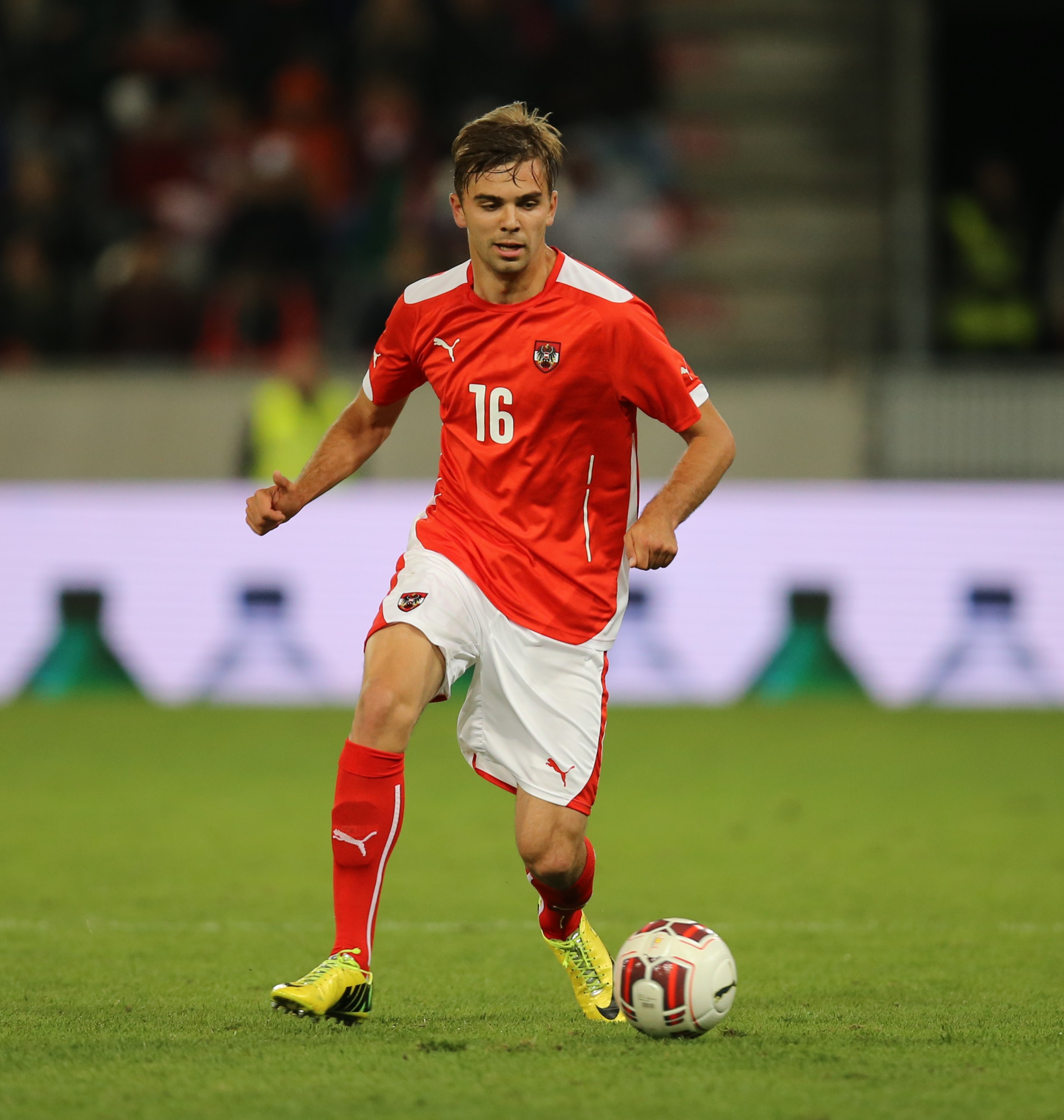 Austria - Iceland football match in Innsbruck, Austria on 2014-05-30. Austria in red, Iceland in blue.